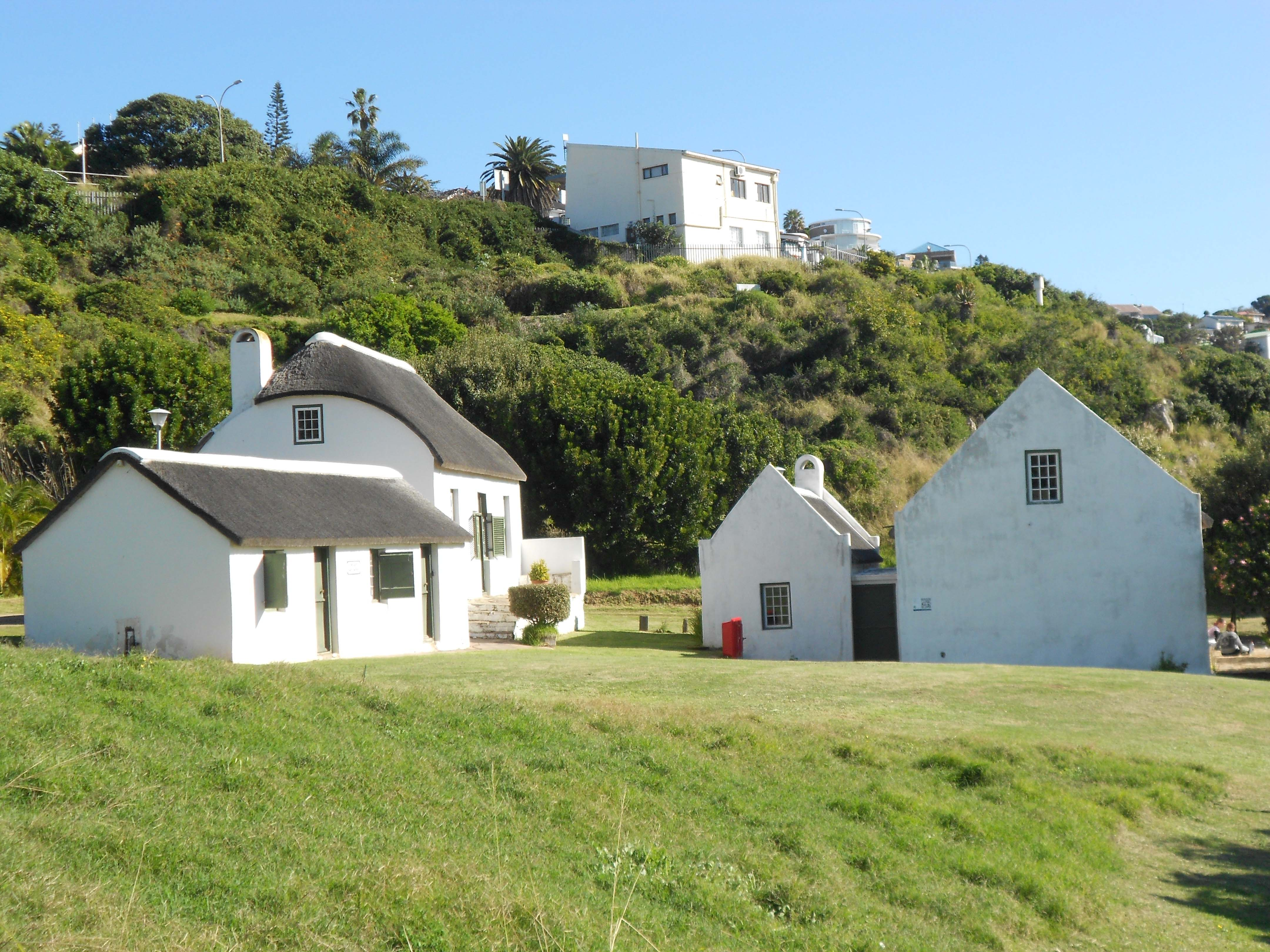 The Cape Dutch style cottages in the Dias Museum Complex’s gardens. They are replicas, built on the original foundations, of houses which Alexander Munro built here in about 1830. Munro ran a seamen’s canteen in one of these buildings, and his family later operated a seal hunting and whaling station from the adjacent beach. This media shows a South African Protected Site with SAHRA file reference 9/2/064/0003/002.